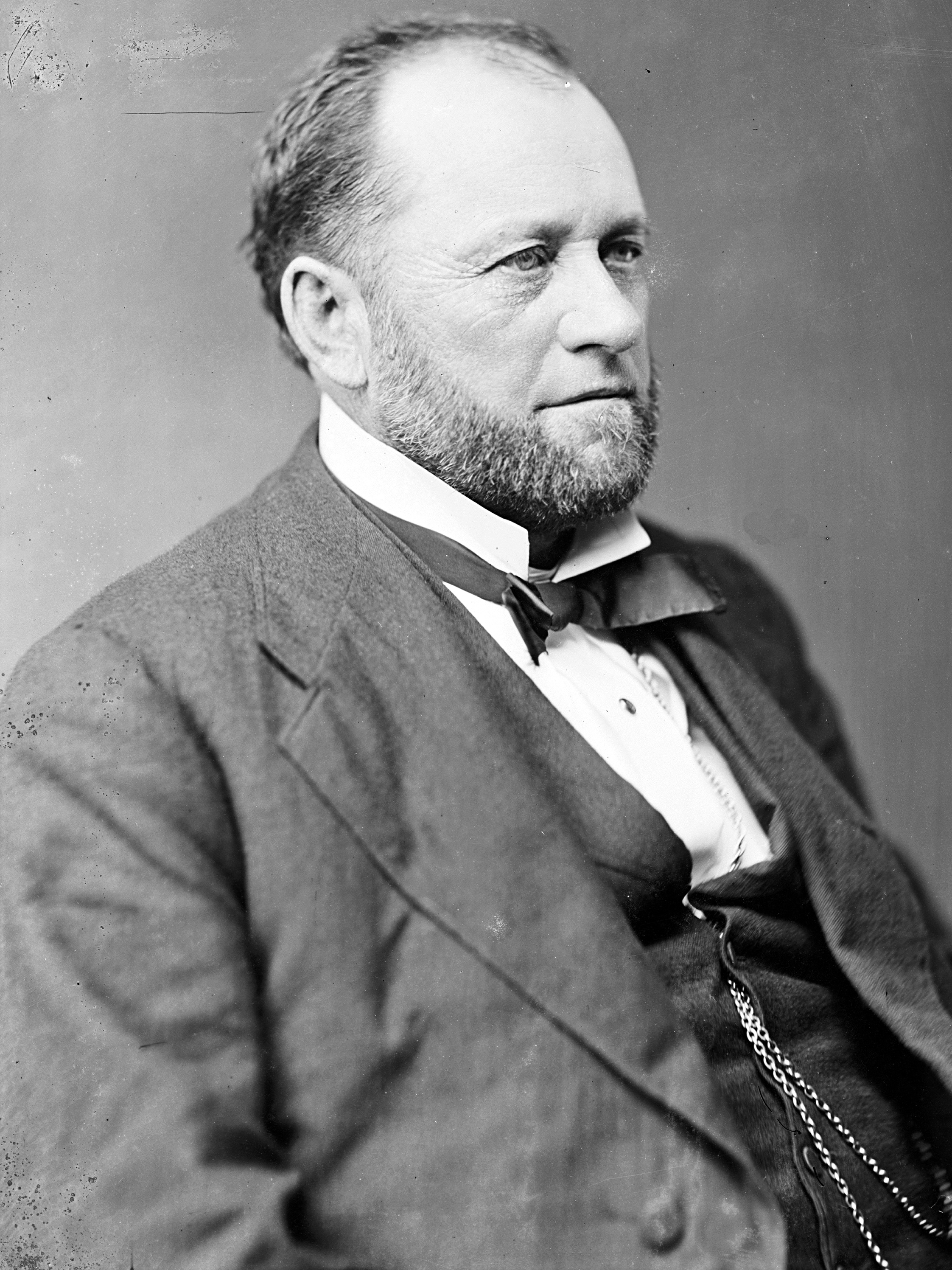 Charles C. B. Walker, US Representative from New York